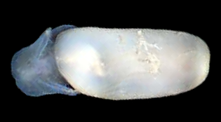 Photo of dorsal view of a live Retusa sp.